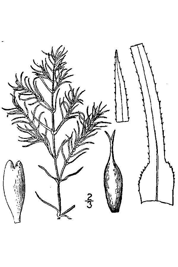 Najas flexilis